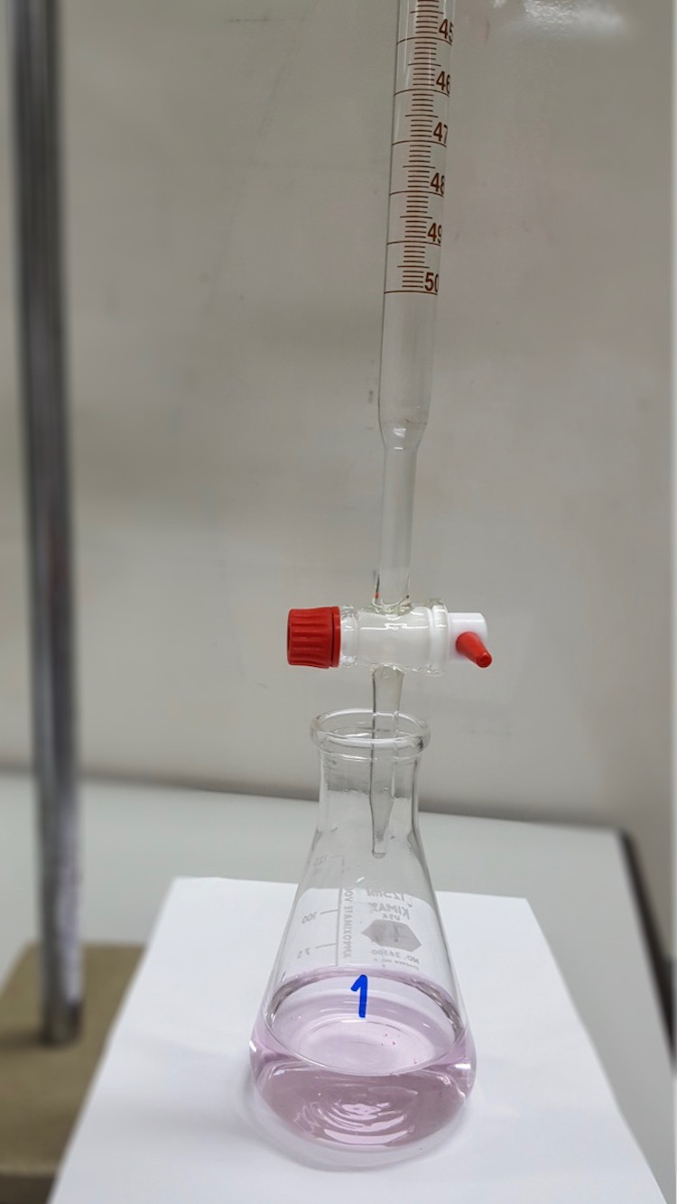 Acid and Base Titration is a quantitive analysis of the concentration of an unknown acid or base solution